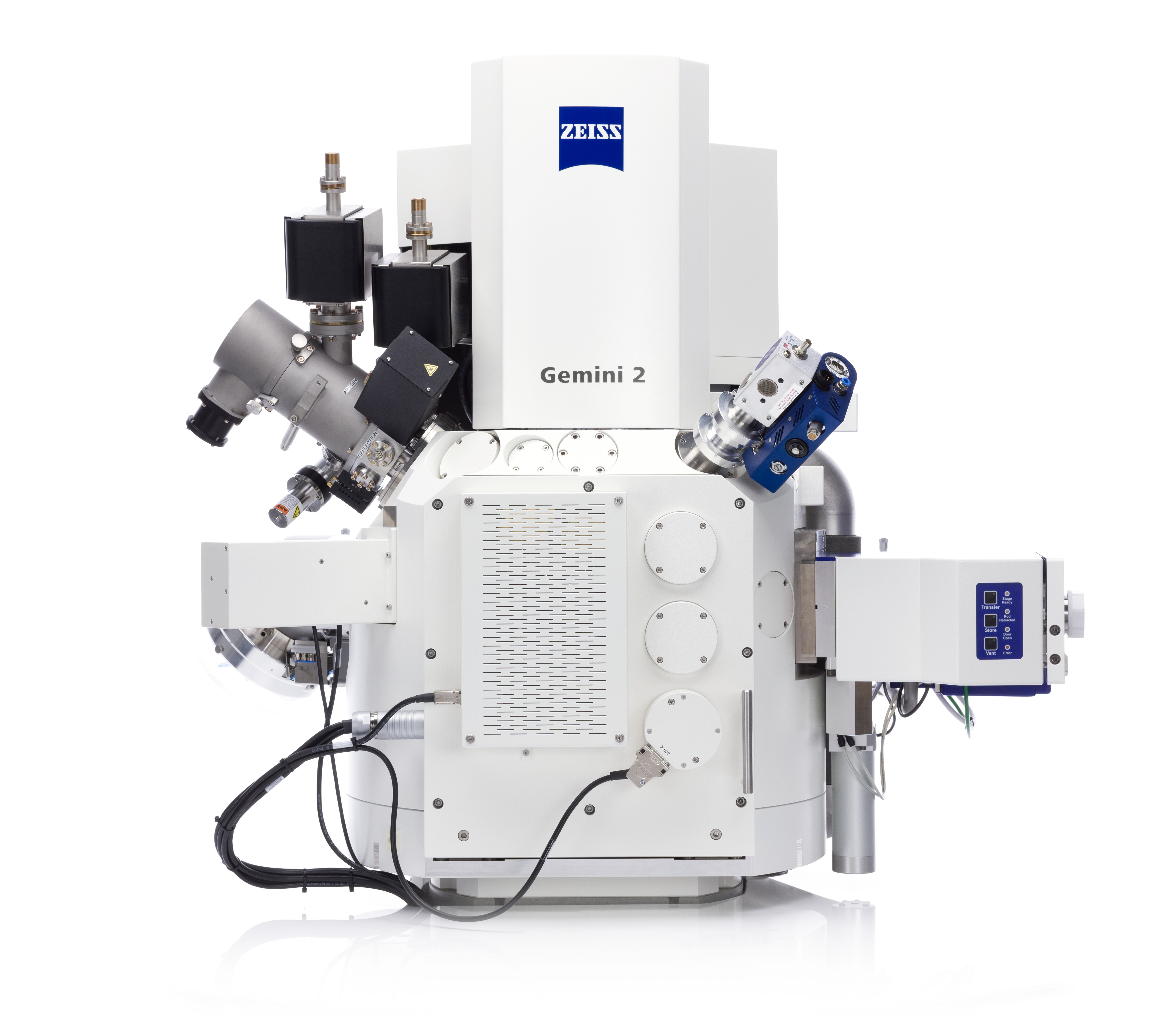 With ZEISS Crossbeam you benefit from a 3D nano-workstation: combine imaging and analytical performance of a field emission scanning electron microscope (FE-SEM) with the processing ability of a focused ion beam (FIB). For milling, imaging or when performing 3D analytics.